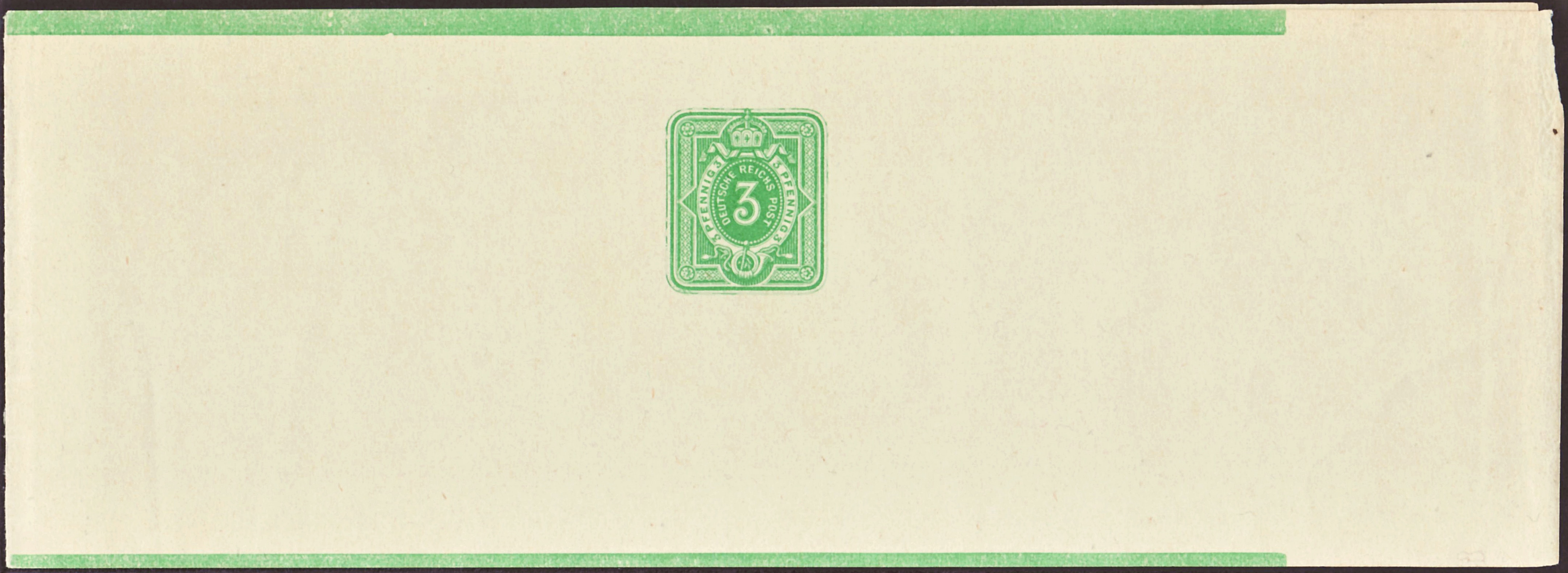 So-called "Streifband" (= banderole for the sending of newspapers etc.) with imprinted definitive stamp of Germany from 1880 of the series "Number in standing oval"; currency "Pfennig" (without ending "e"); mint; normal paper Stamp: Michel: No. 39; Yvert & Tellier: No. 36; Scott: No. 37 Color: yellowish green to dark green Watermark: none Nominal value: 3 Pfennig Postage validity: from 1880 until 31 January 1891 Stamp picture size: 18.5 x 21.5 mm